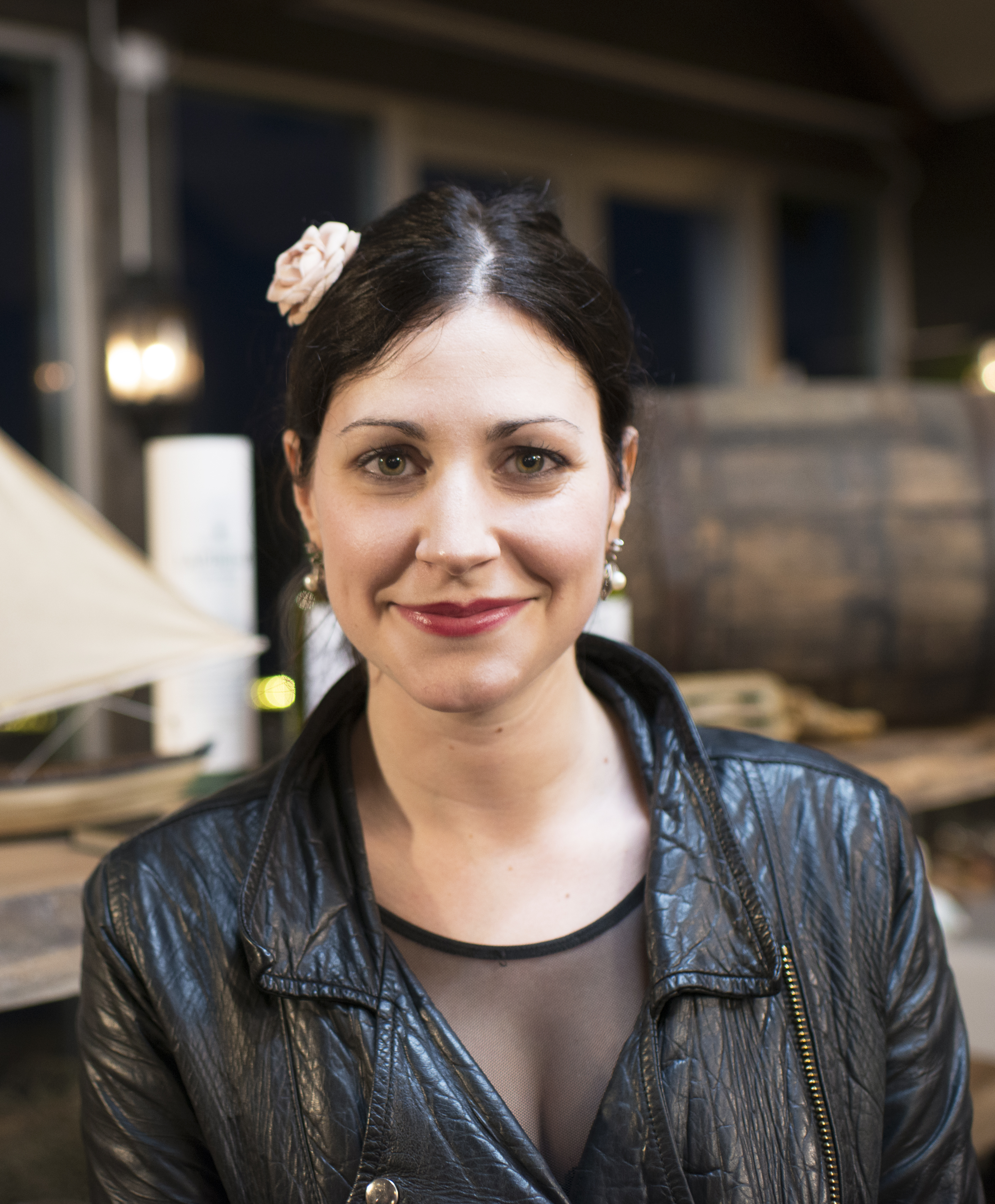 Nour El Refai